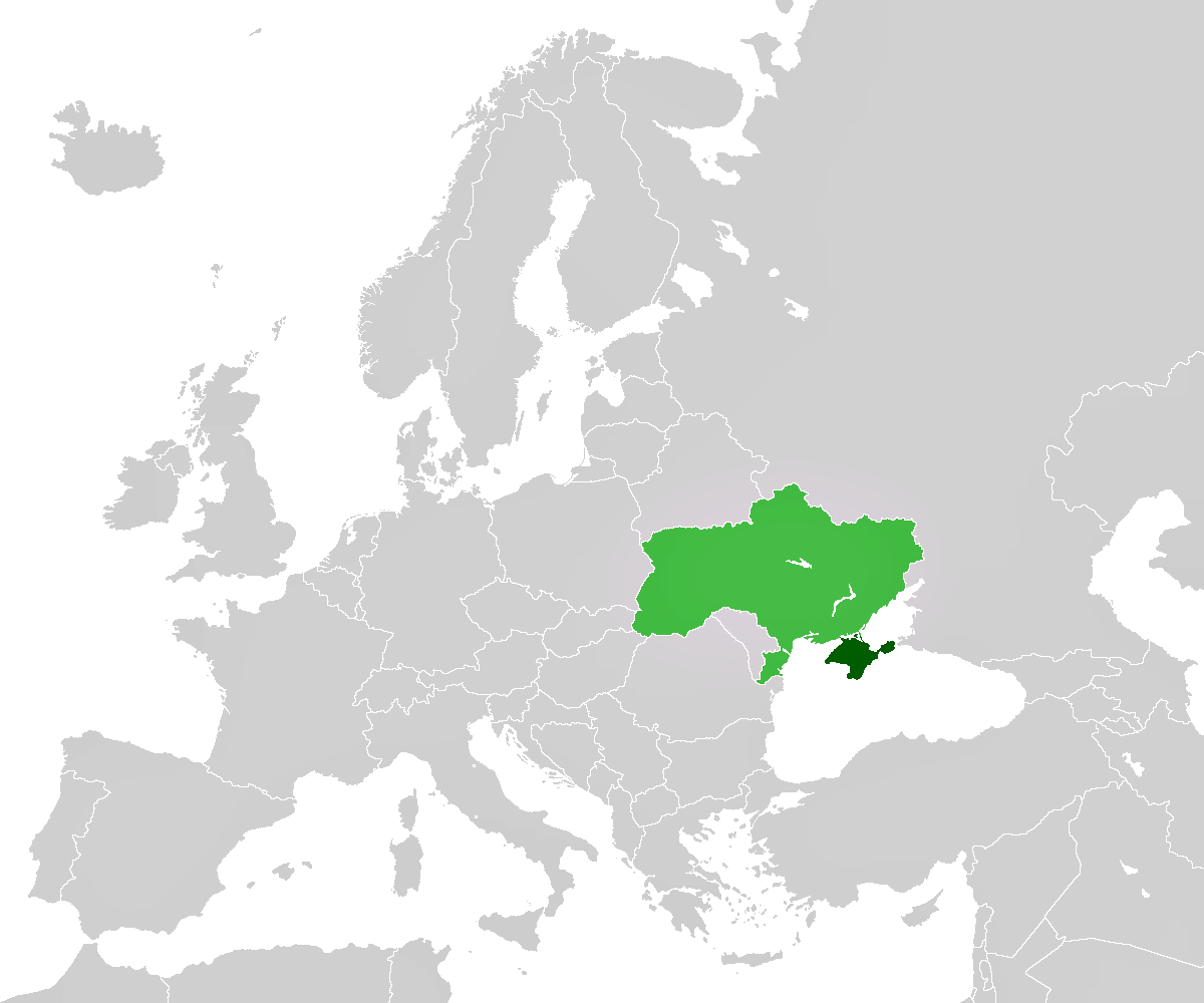 A map depicting location of Crimea (within Ukraine).